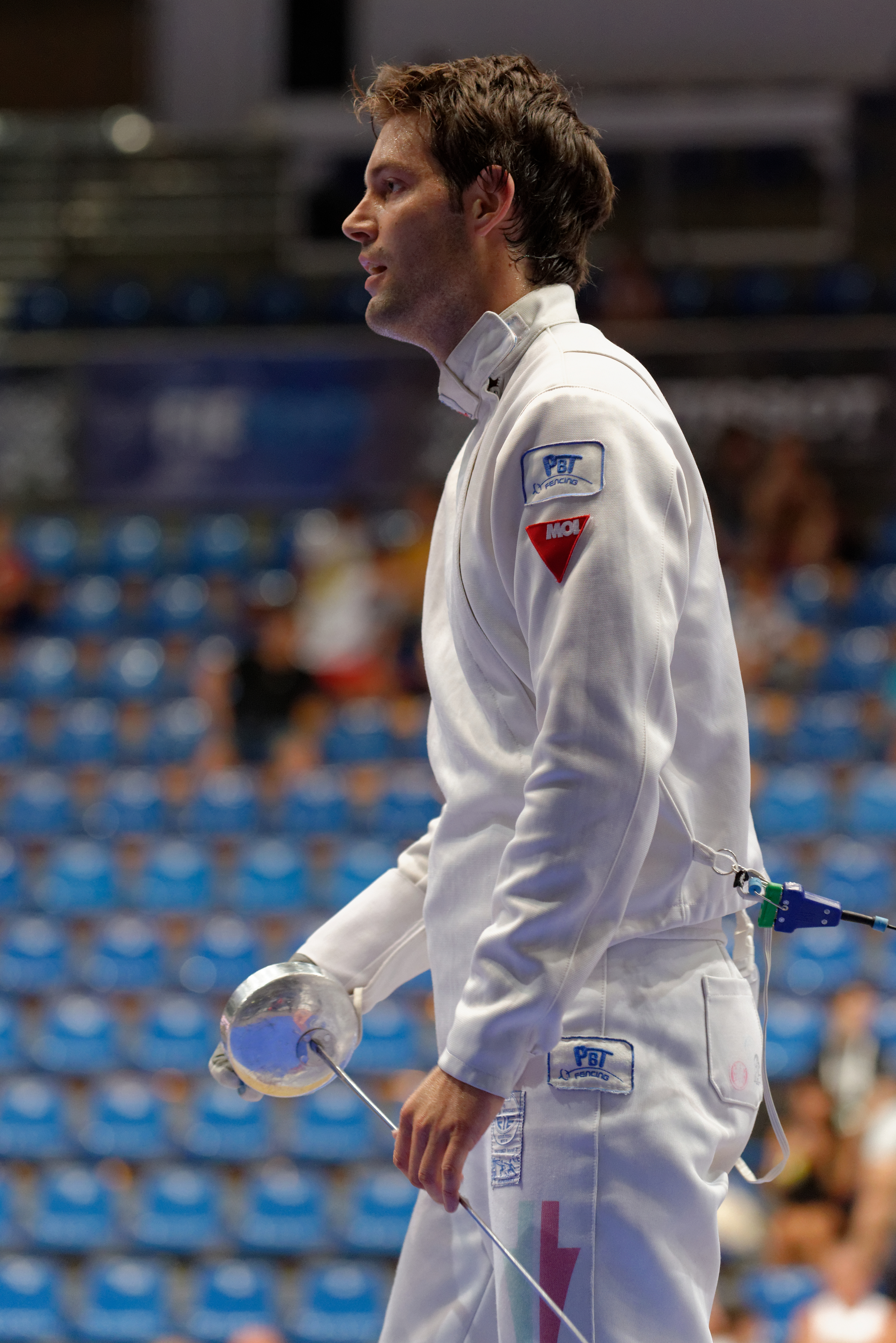 Péter Szényi from Hungary during his bout against Finland's Niko Vuorinen in the table of 64 of the men's épée event in the 2013 World Fencing Championships 2013 at Syma Hall in Budapest, 8 August 2013.